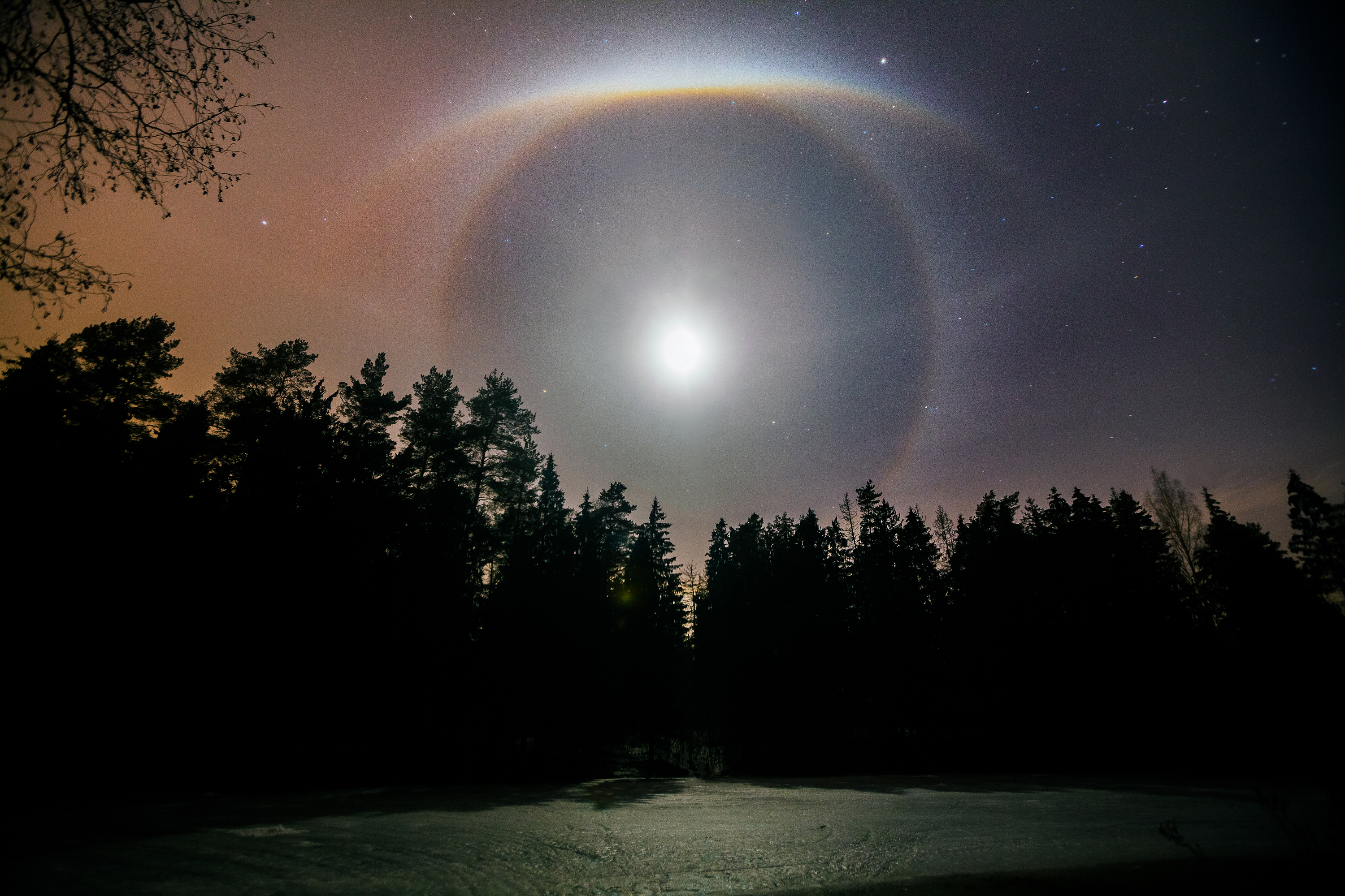 Moon Halo